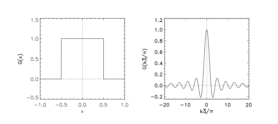 Box filtering operation in physical and spectral space